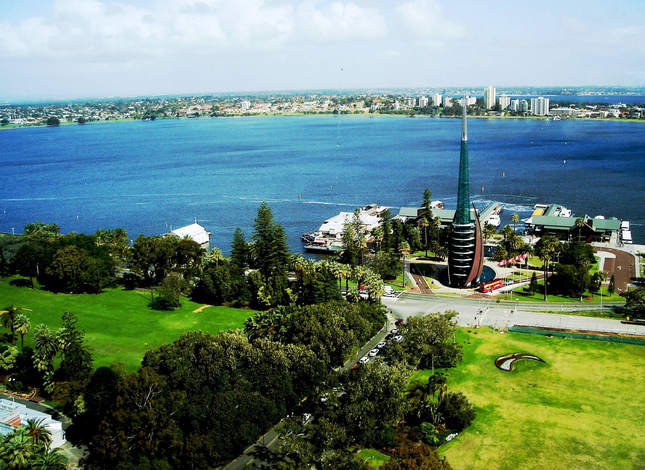 Looking south from 28th Floor of Exchange Plaza, Perth Western Australia. Belltower and Barrack St Jetty in foreground